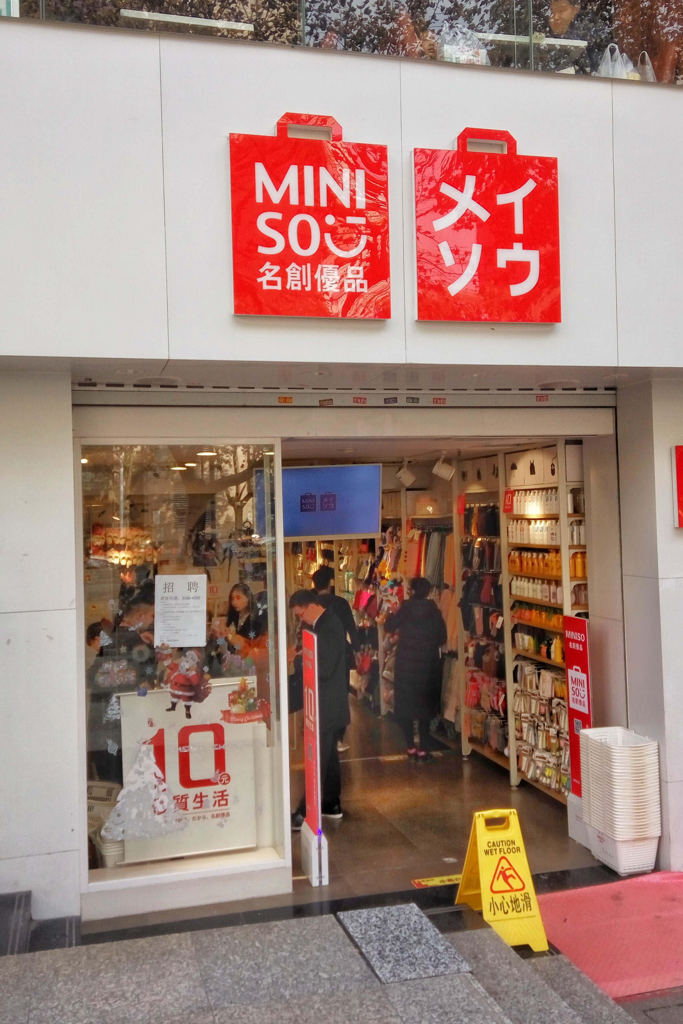 A Miniso store in the downtown Xinjiekou area of Nanjing.